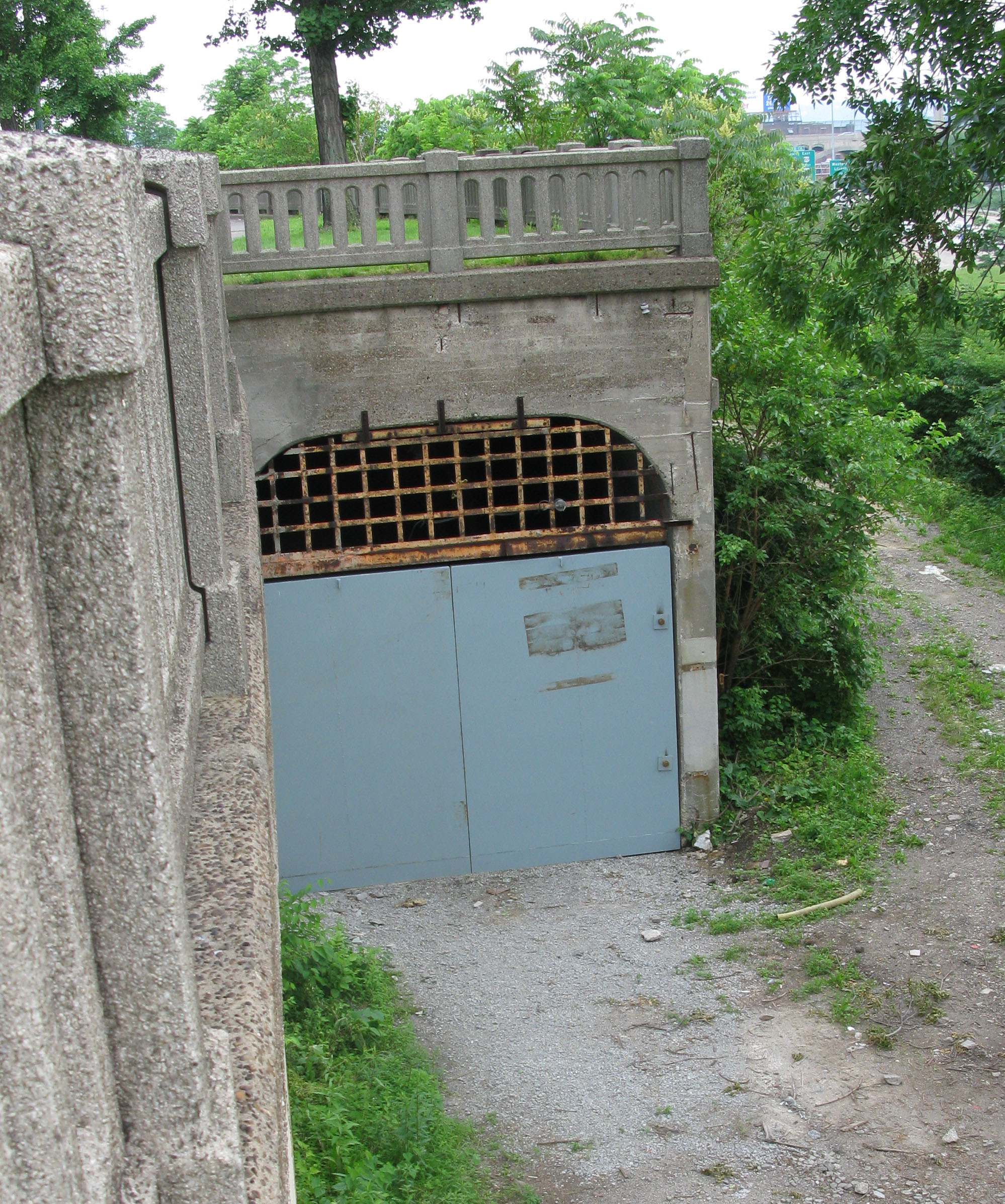 A locked door to the abandoned Cincinnati Subway tunnels.